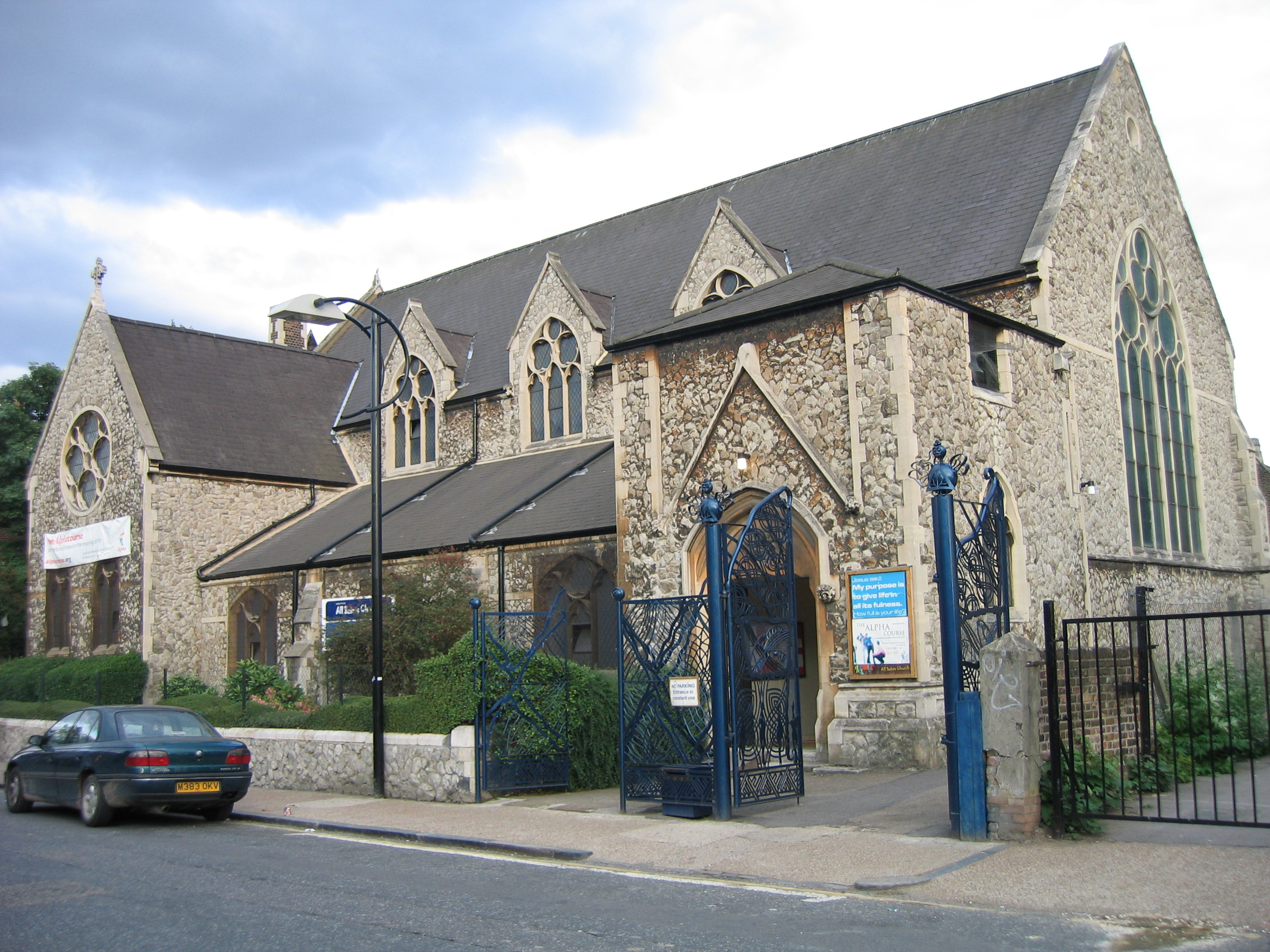 Andrew Price - I took the photograph and hold the copyright. Source C:\Documents and Settings\gg\My Documents\Documents\My Documents\AS\IMG_0632.JPG